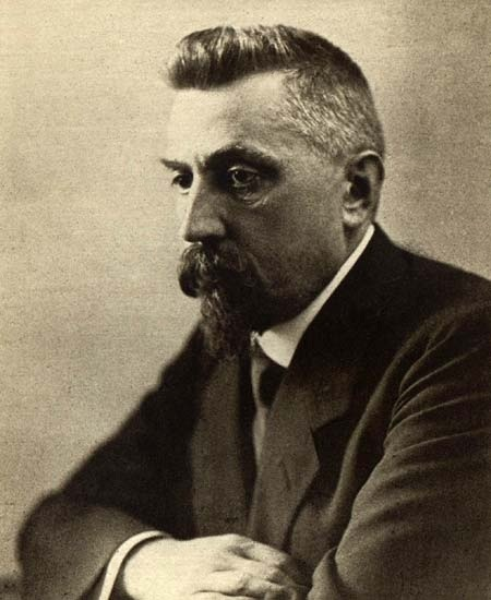 The Russian writer Nikolay Dmitryevich Teleshov.